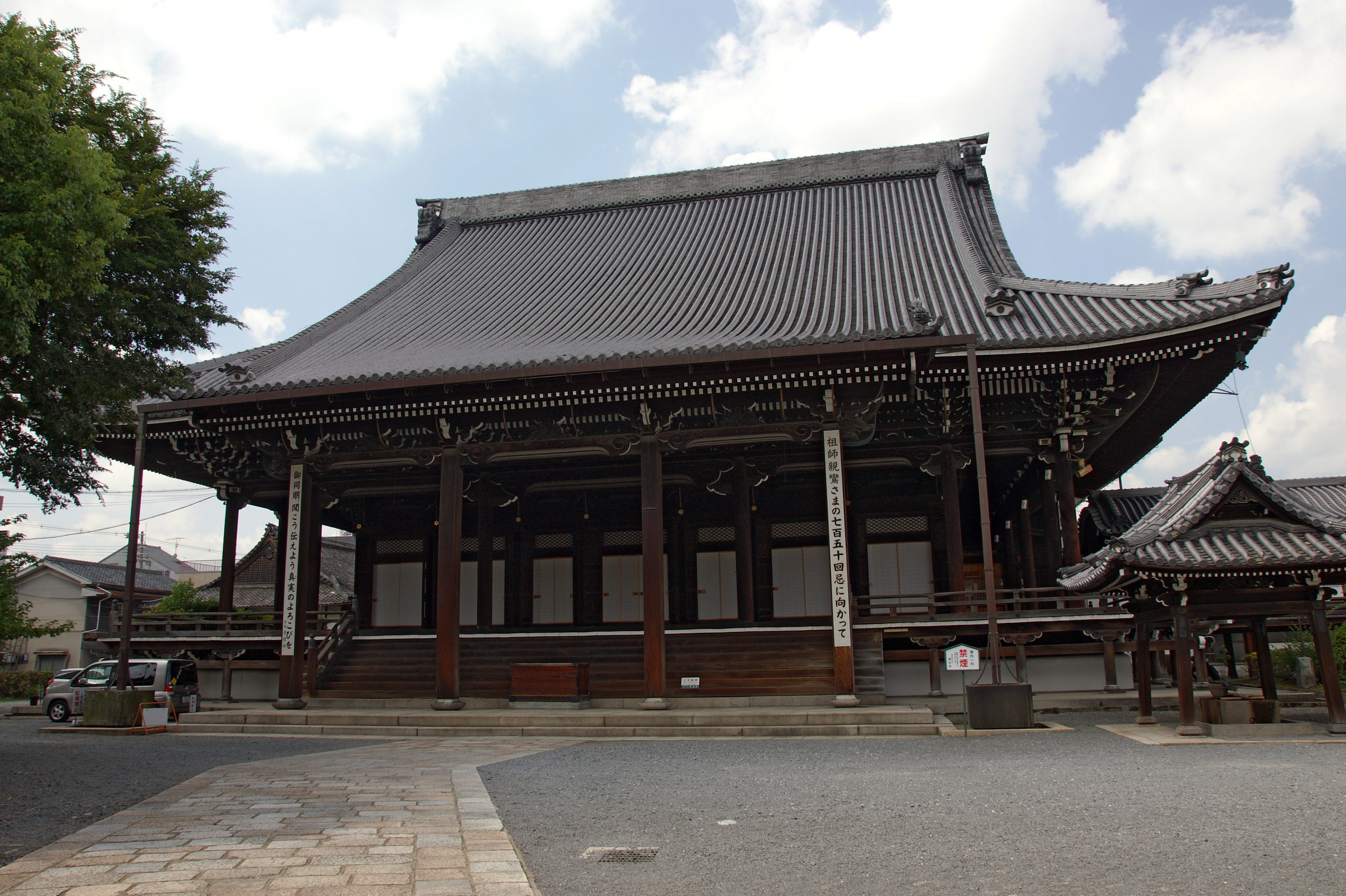 Koshoji in Kyoto, Kyoto prefecture, Japan